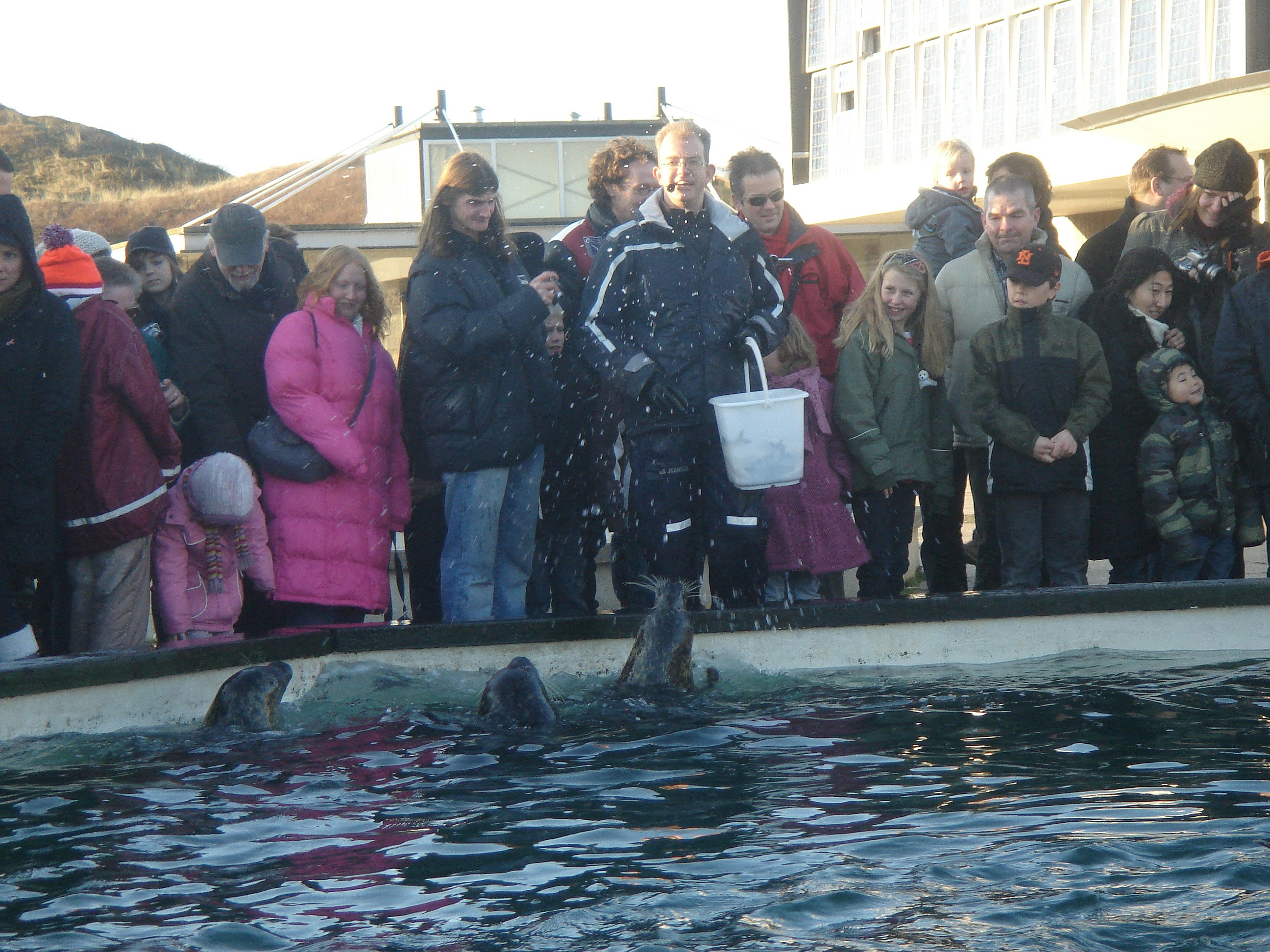 Public seal feeding at Ecomare, Texel, Netherlands.